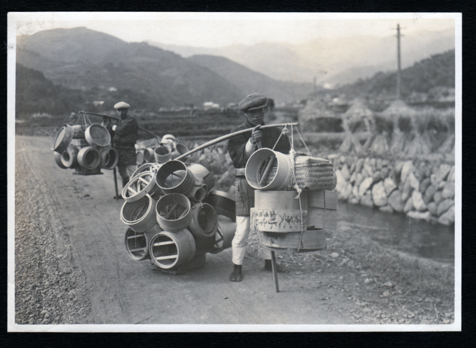 Since the photographer did not label this photo, I will give you my interpretation: These are itinerant steamer salesmen. Look at the long road they've traversed with their bulky wares!